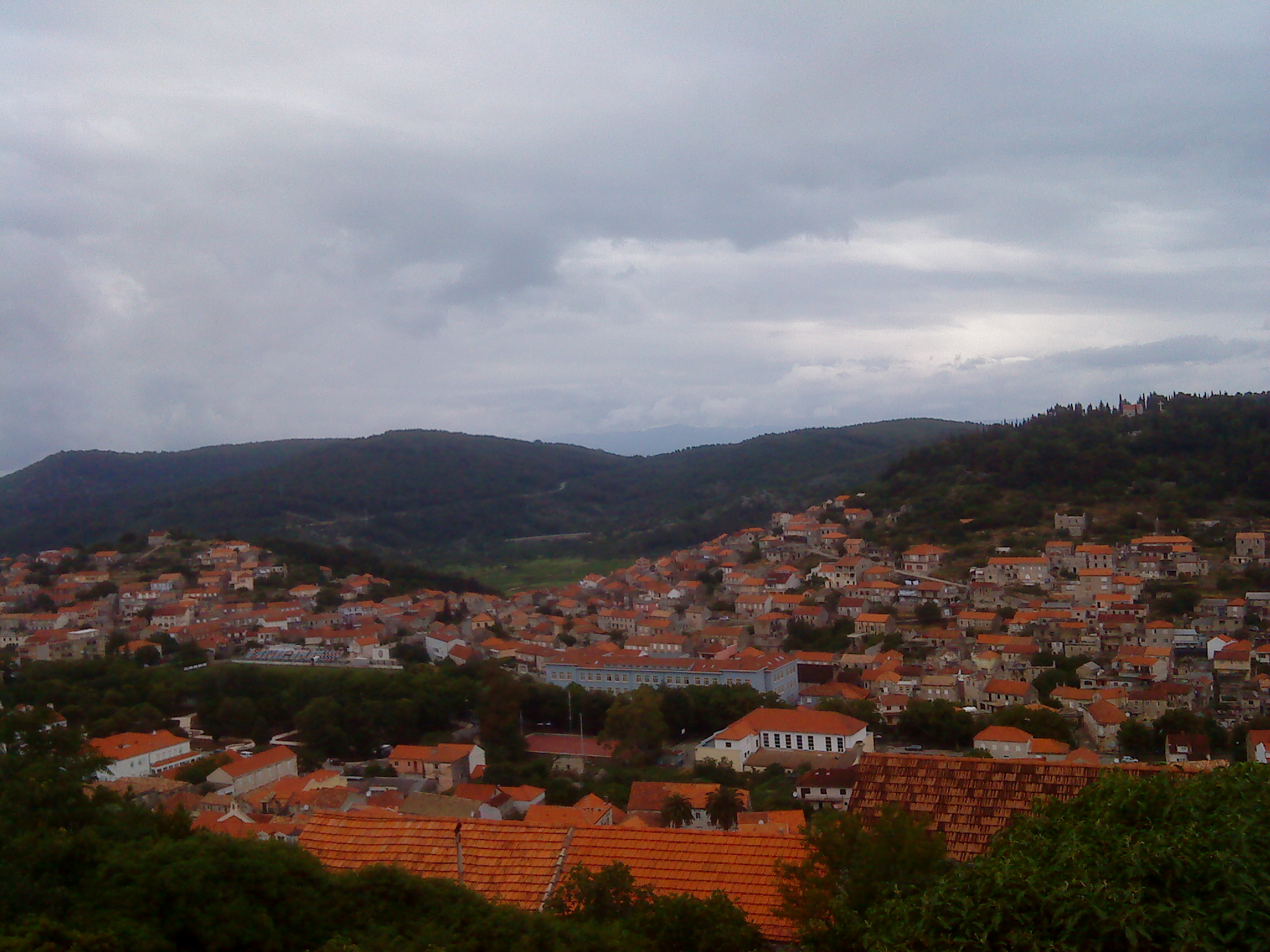 Panorama photo of Blato , Korčula